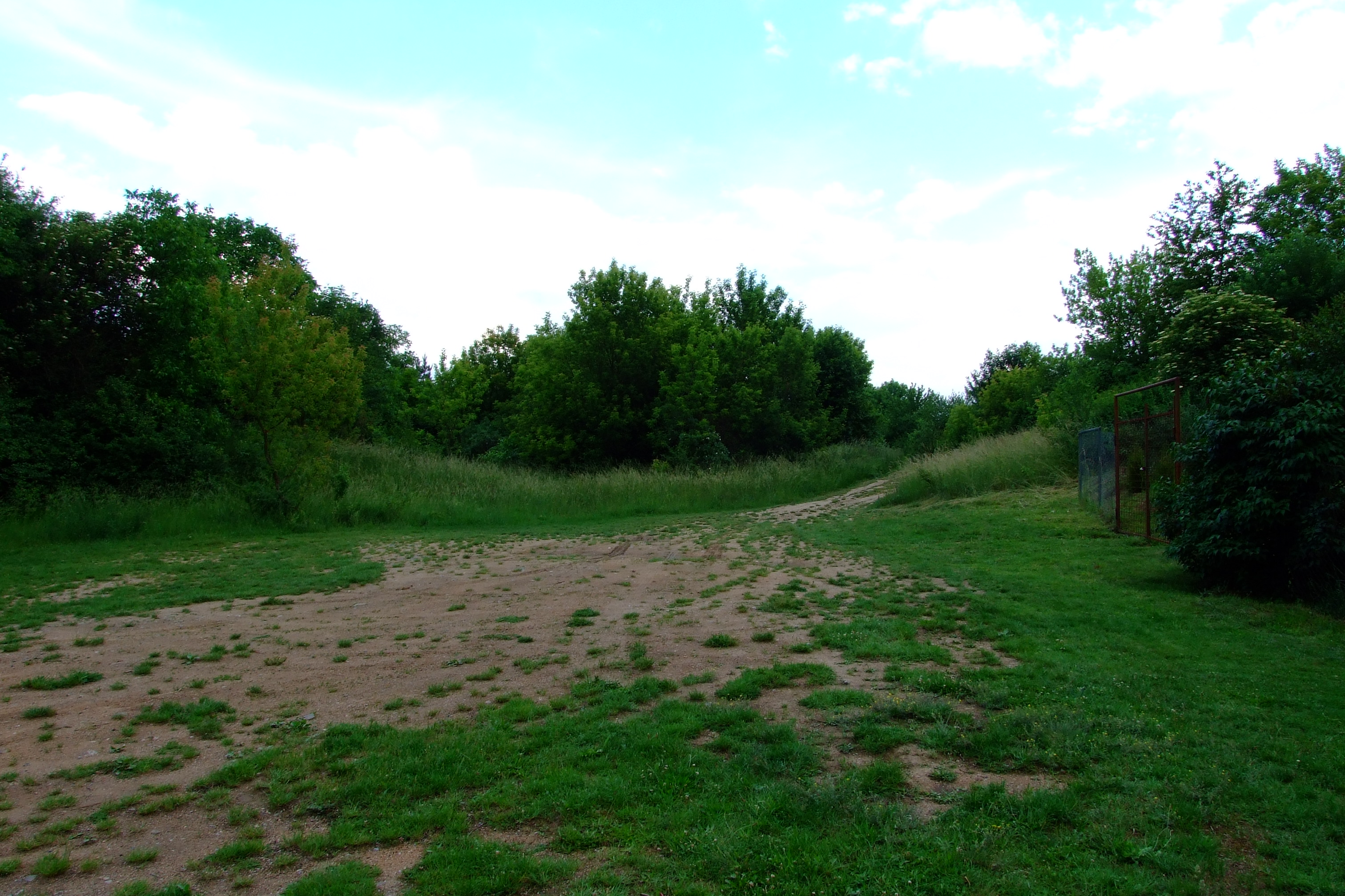 Part of the unfinished Ex-teritorial motorway Wien - Wroclaw in the cadastral area of the Brno-Bystrc city district